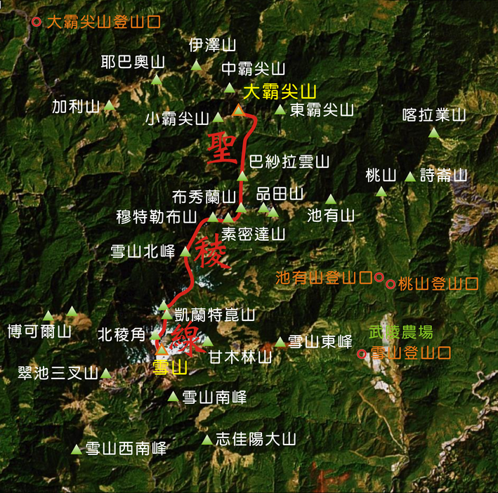 Holy ridgeline